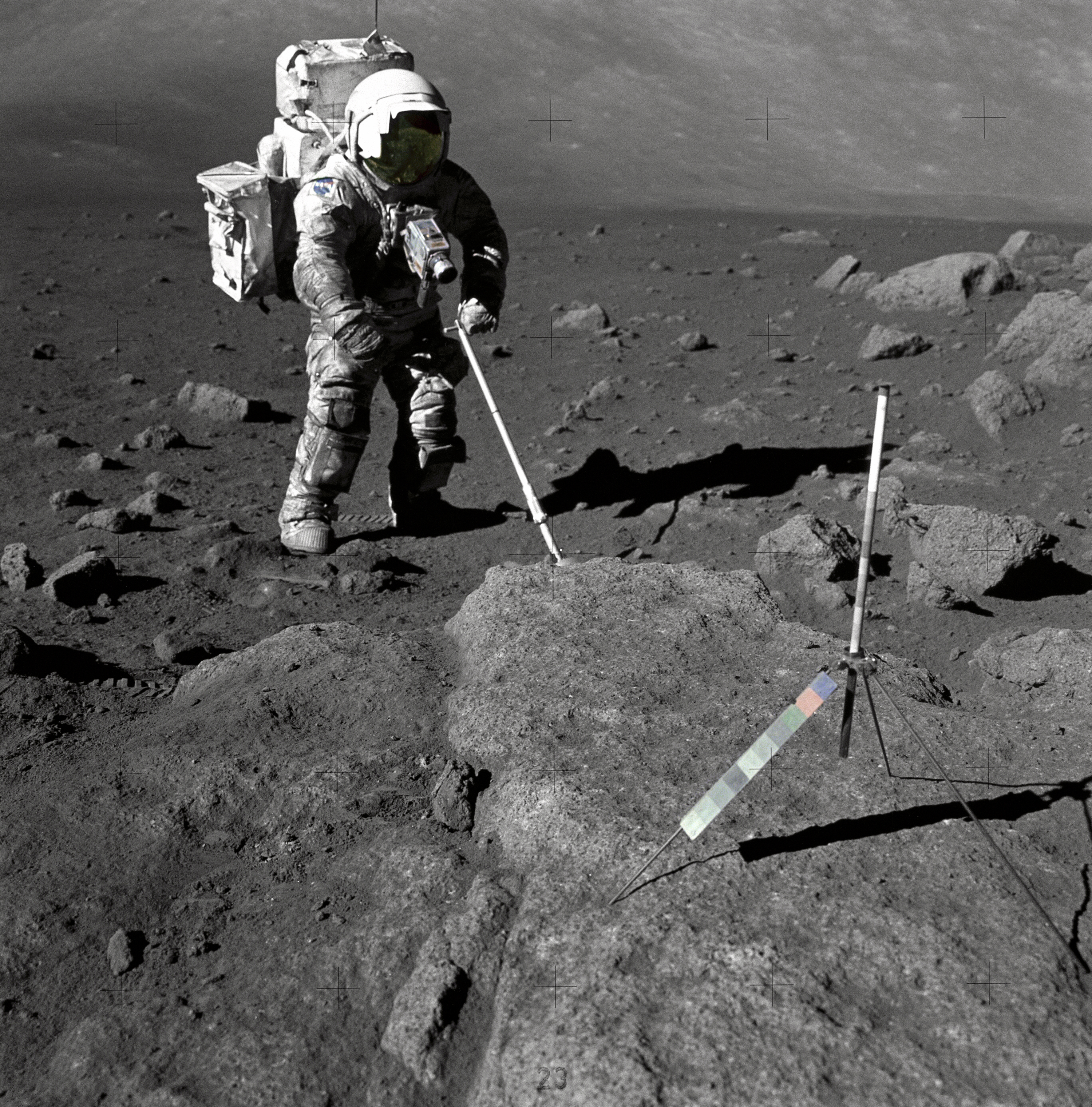 Geologist-Astronaut Harrison Schmitt, Apollo 17 lunar module pilot, uses an adjustable sampling scoop to retrieve lunar samples during the second extravehicular activity (EVA-2), at Station 5 at the Taurus-Littrow landing site. The cohesive nature of the lunar soil is born out by the "dirty" appearance of Schmitt's space suit. A gnomon is atop the large rock in the foreground. The gnomon is a stadia rod mounted on a tripod, and serves as an indicator of the gravitational vector and provides accurate vertical reference and calibrated length for determining size and position of objects in near-field photographs. The color scale of blue, orange and green is used to accurately determine color for photography. The rod of it is 18 inches long.The scoop Dr. Schmitt is using is 11 3/4 inches long and is attached to a tool extension which adds a potential 30 inches of length to the scoop. The pan portion, blocked in this view, has a flat bottom, flanged on both sides with a partial cover on the top. It is used to retrieve sand, dust and lunar samples too small for the tongs. The pan and the adjusting mechanism are made of stainless steel and the handle is made of aluminum.